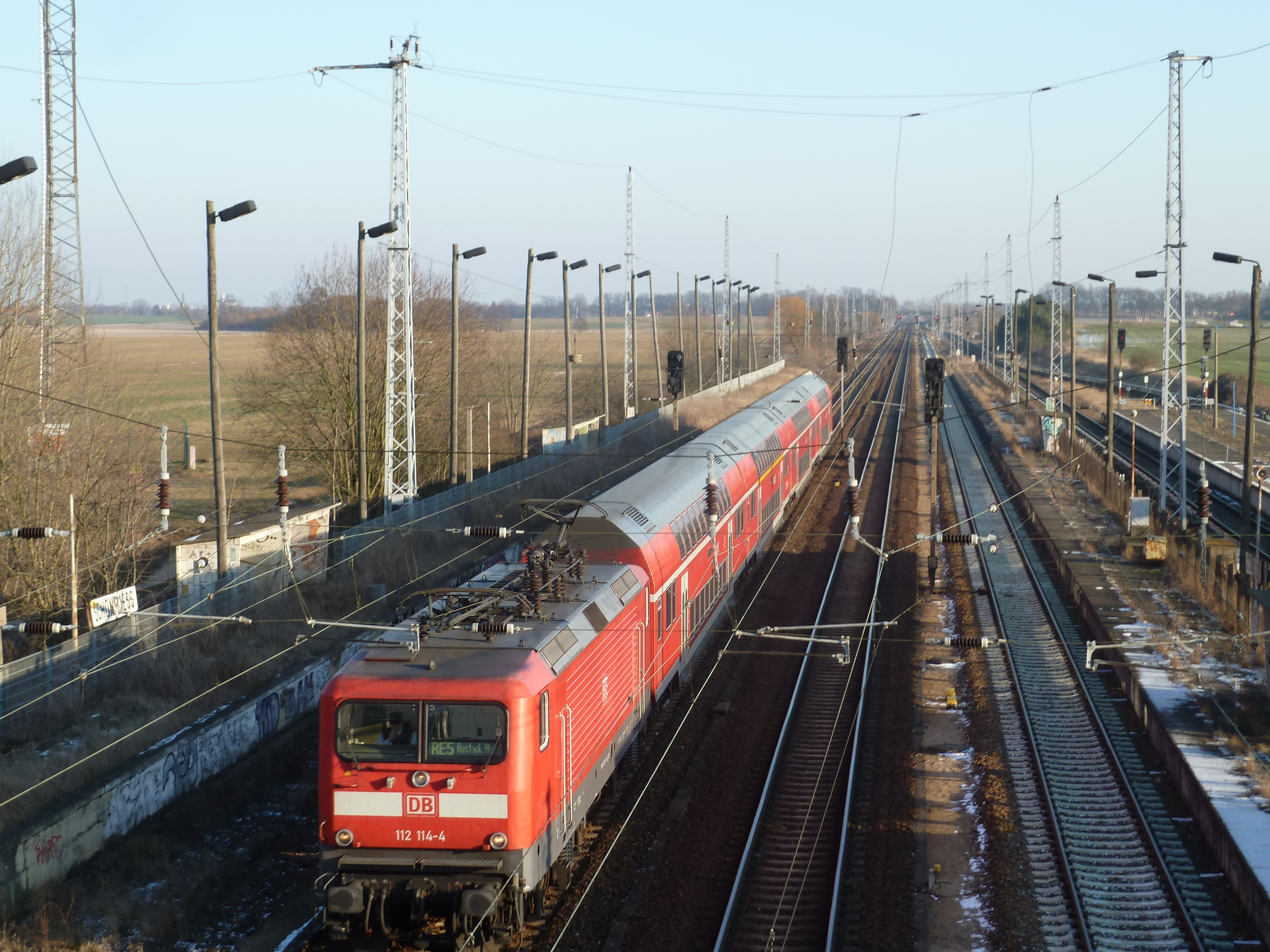 Schönfließ railway station, near Berlin, view eastbound